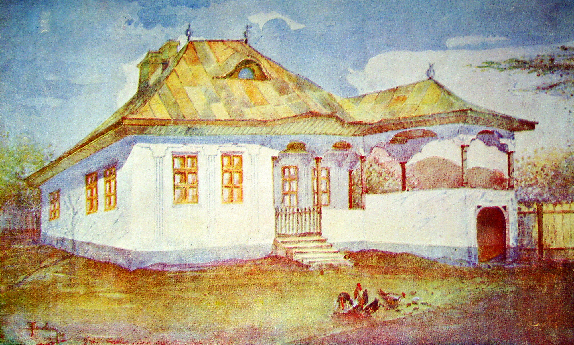 Old house that could be seen in Ploieşti (Judeţul Prahova, Romania) until the beginning of the XXth century. "casa Petre Ion zis Boiangiul" - Strada Ulierului à Ploieşti Painter: Toma T. Socolescu We are the only heirs and descendants of Toma T. Socolescu (died in 1960 in Bucharest) and therefore owner of all his intellectual rights.